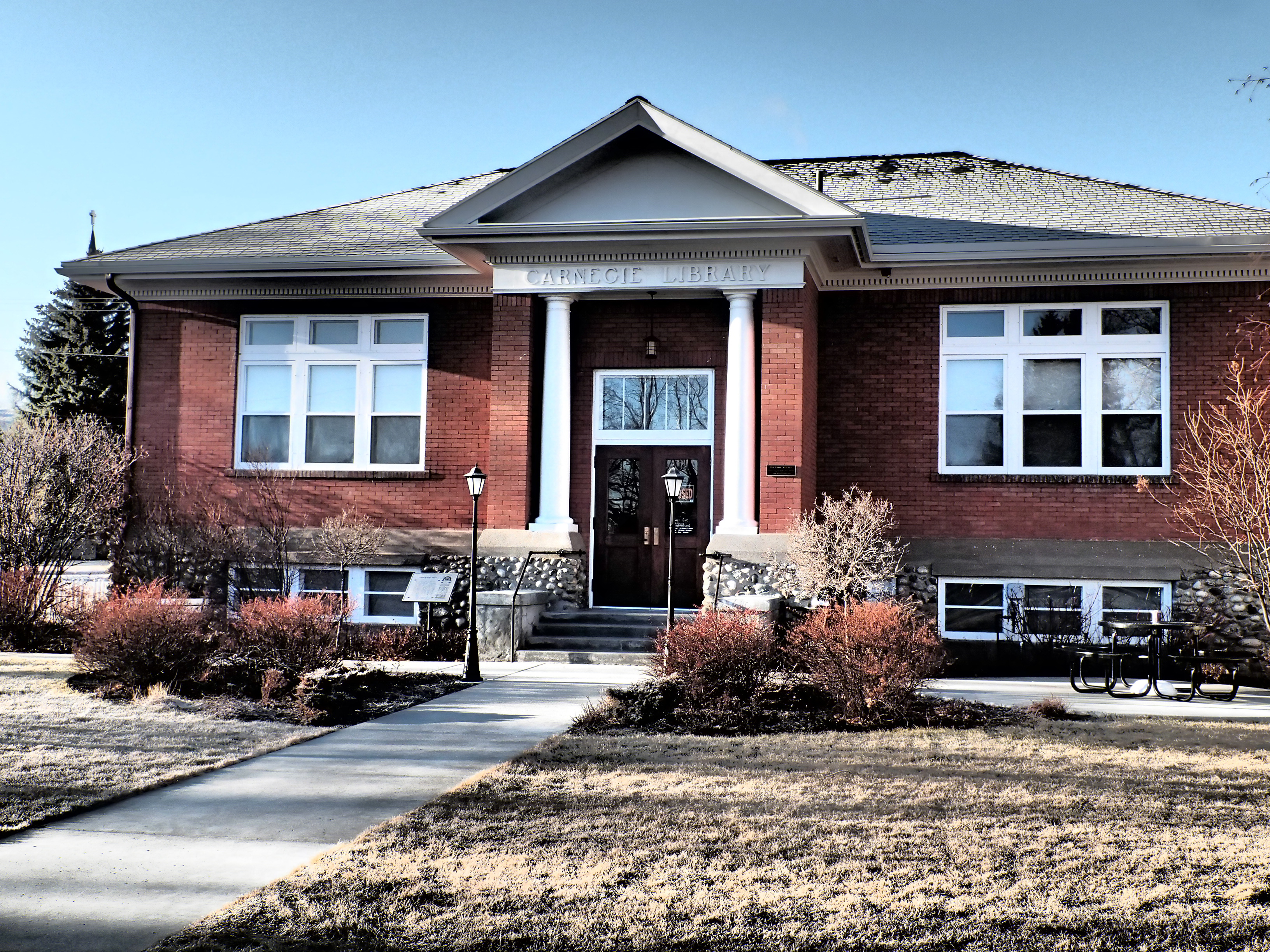 Carneige Library Big Timber Montana